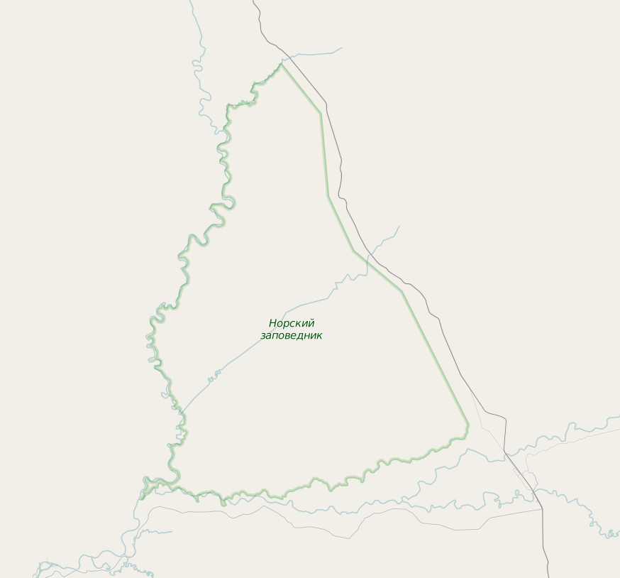 Norsky Nature Reserve (green borders). Northeast Amur River - Zeya River plain.